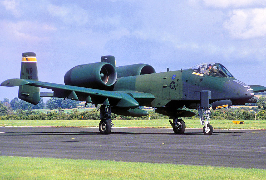 92d Tactical Fighter Squadron - Fairchild Republic A-10A Thunderbolt II - 81-0992